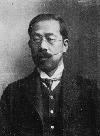 Mr. Eiji Makiyama, inspector of the Department of Education.